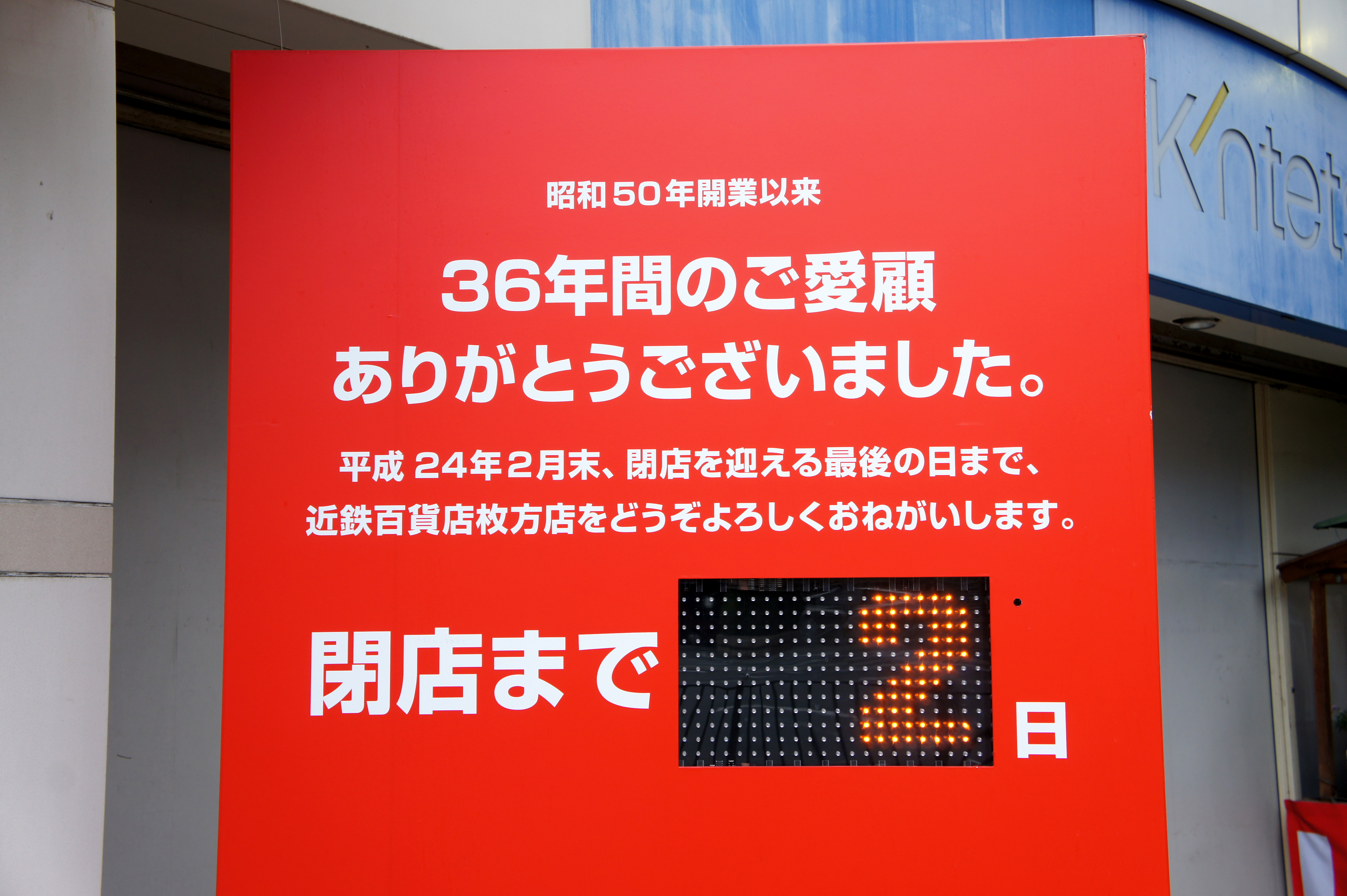 KINTETSU Department Store Hirakata(Countdown sign), 12-2-101 Okahigashicho Hirakata-City Osaka Japan.